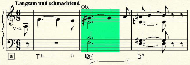 First phrase of the prelude to 'Tristan and Isolde' by Richard Wagner. Tristan-chord is highlighted